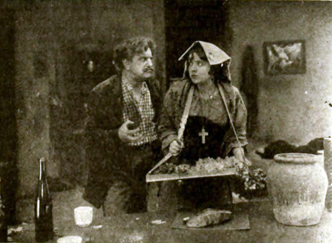 Illustration of an article in The Moving Picture World with still from the film The Making of Maddalena (1916).